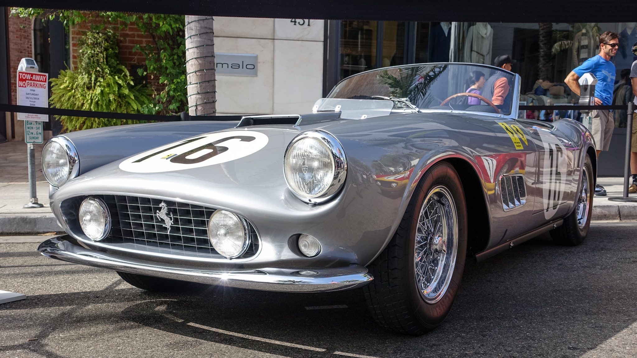 Luigi Chinetti requested a special open car for the U.S. market; the result was the 250 California Spyder. Only nine of the 50 Long Wheelbase California Spyders had special light-weight alloy bodies; even fewer cars had an engine with competition features and an outside fuel cap such as this car. Sold new to privateer racer Bob Grossman, it was first raced at the 1959 24 Hours of Le Mans, where Grossman and Fernand Tavano finished 5th overall and 3rd in class. Grossman then raced the car in 1959 and 1960, taking many class wins and podium finishes.